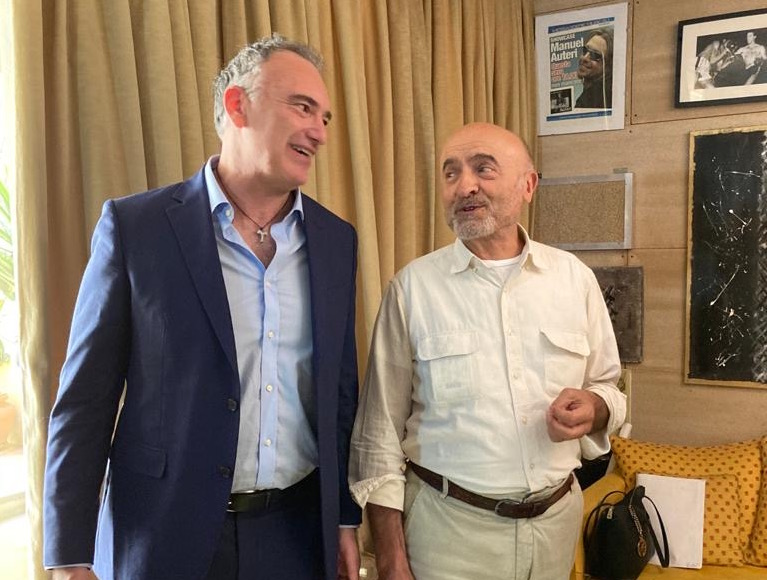 Lo scrittore Rigel Bellombra